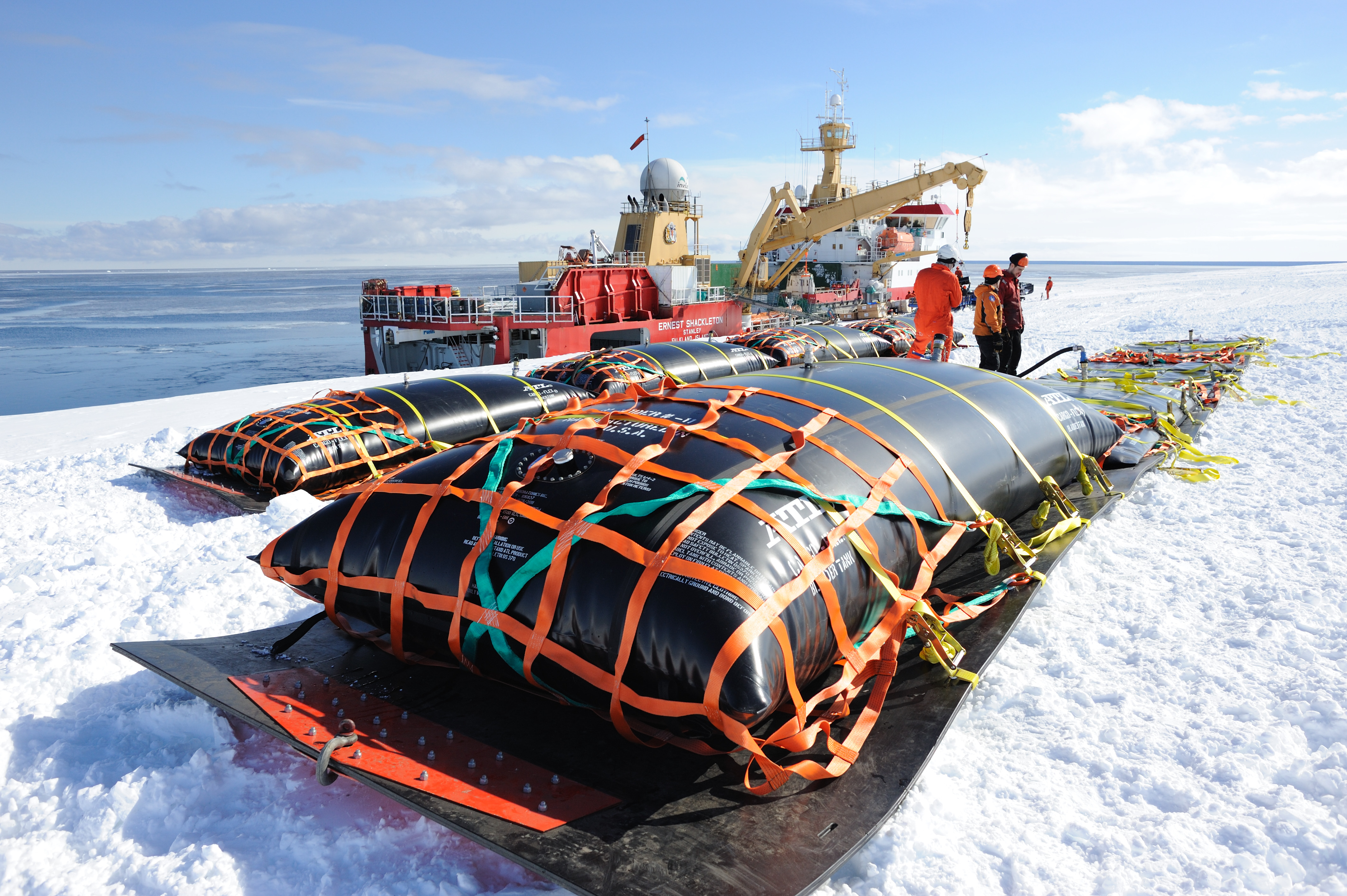 ATL "Cargo-Flex™" liquid transport bladders await filling in Antarctica.